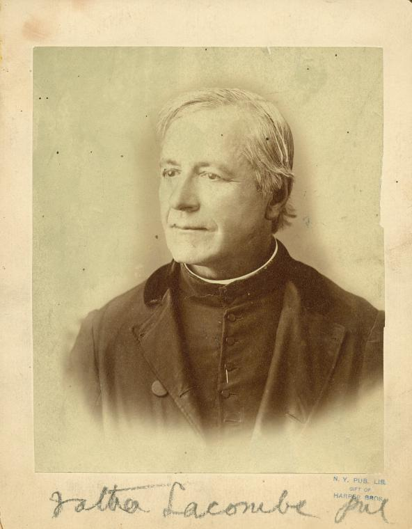 Albert Lacombe (1827-1916), a French-Canadian Roman Catholic missionary who lived among and evangelized the Cree and Blackfoot First Nations of western Canada.